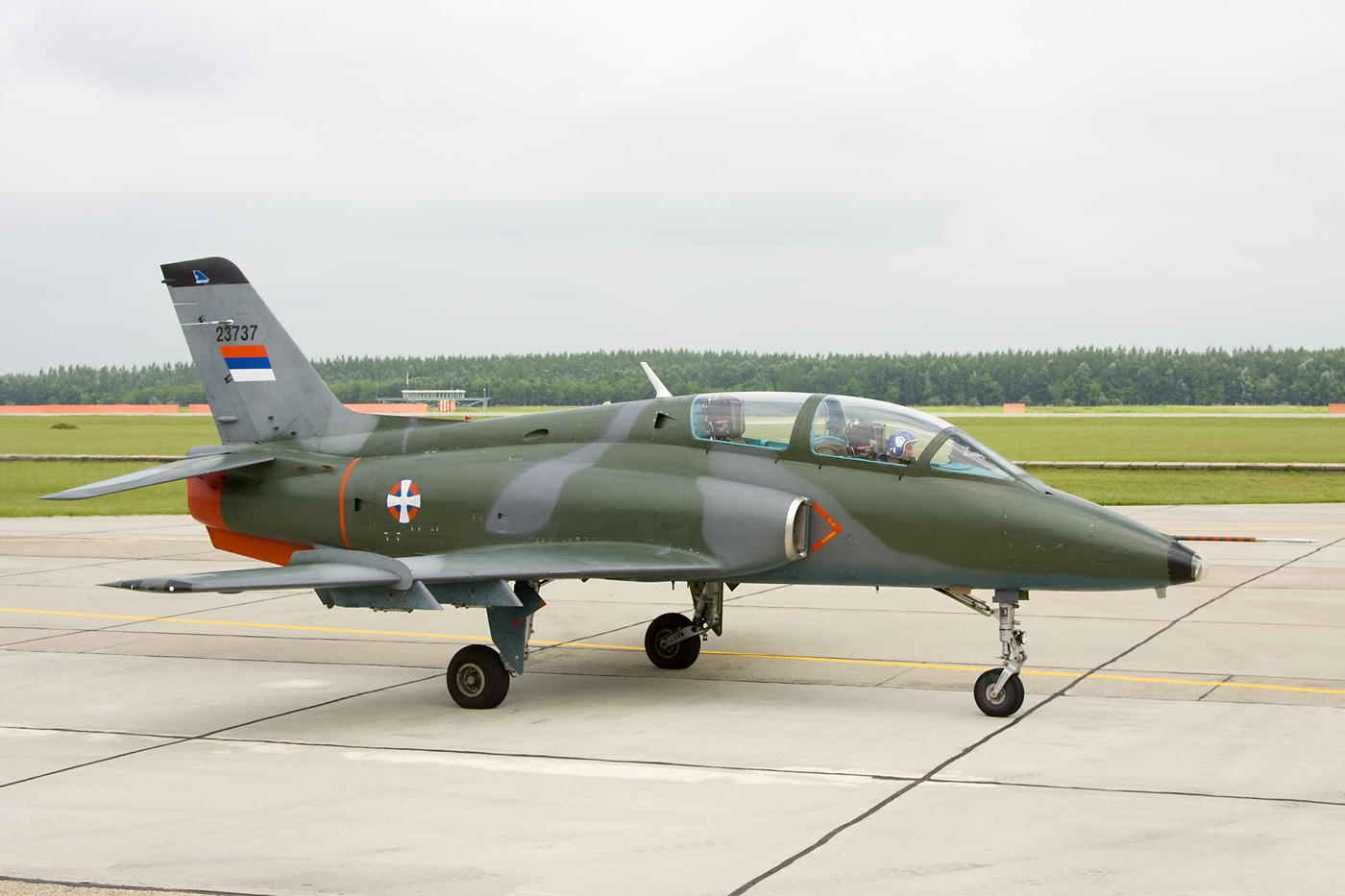 Kecskemet airshow (Hungary) in 2010. Something you don't see in western Europe. This G-4 is from 252.shtae at Batajnica.